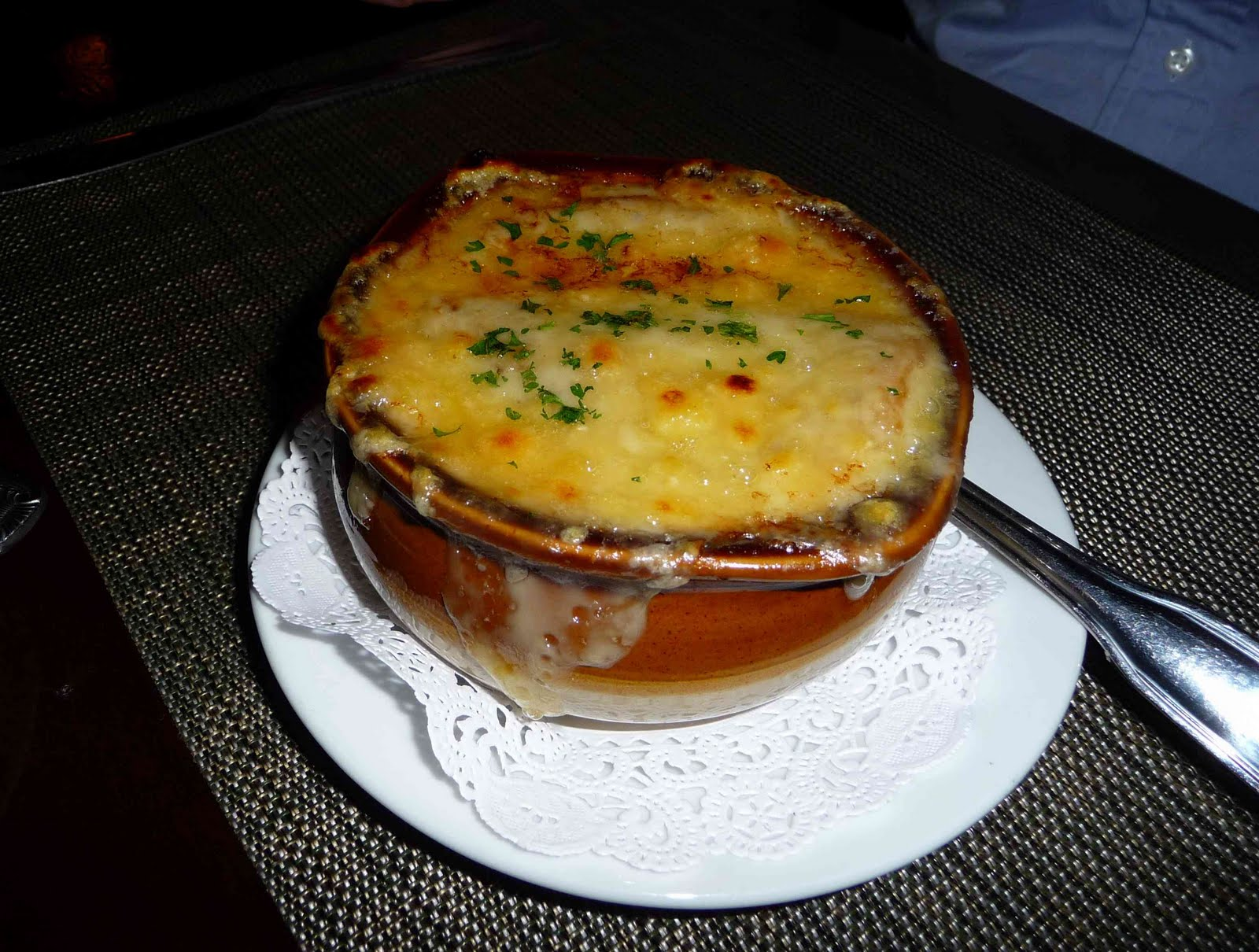 french onion soup, as photographed at the Woodhaven House in Rego Park, NY.